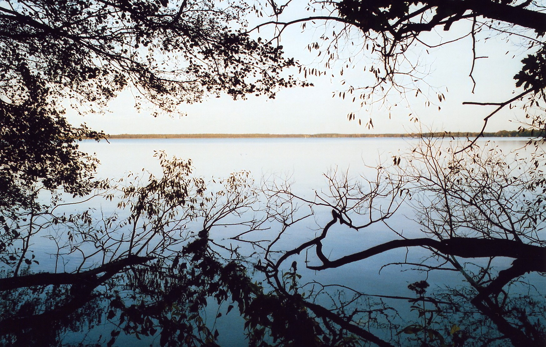 Lake Arendsee in northern Germany – a large water-filled sinkhole. View from the western bank.